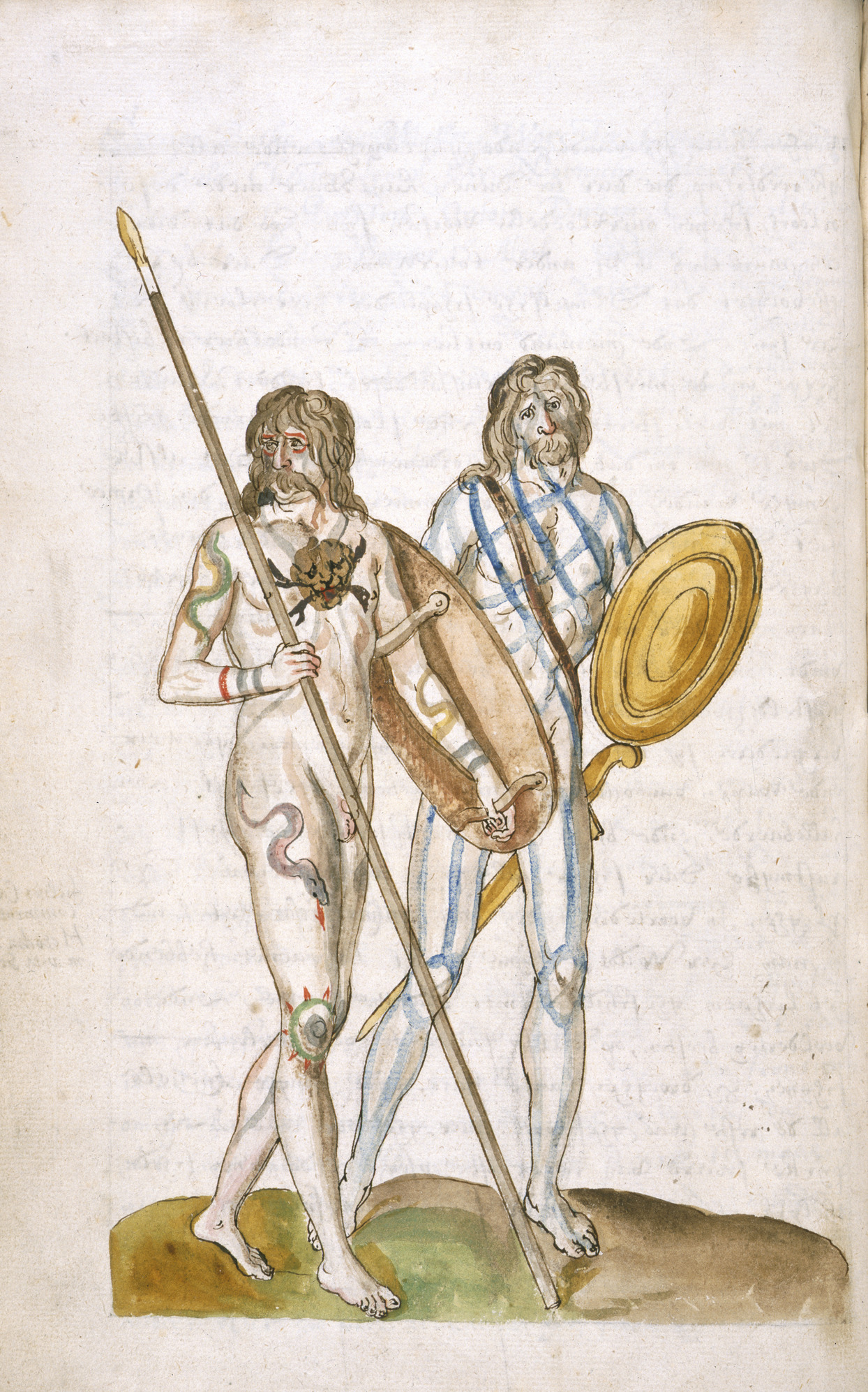 Drawing of Ancient Britons (Whole folio) Drawing of two Ancient Britons; one with tattoos, and carrying a spear and shield; the other painted with woad, and carrying a sword and round shield